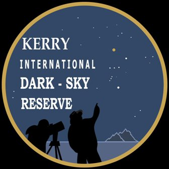 This is the official logo of the Kerry International Dark-Sky Reserve. The areas included in the Reserve are: Kells, Cahersiveen, Valentia Island, Portmagee, The Glen, Ballinskelligs, Waterville, Dromid and Caherdaniel.